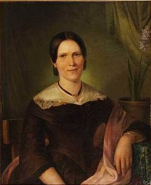 Louise Fikentscher, née Trommsdorff (1813–1850), the wife of the Saxon chemist and entrepreneur Friedrich Christian Fikentscher (1799–1864).